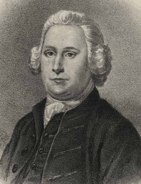 John Alsop, member of the Continental Congress. Created by Max Rosenthal (1833-1918) (Lithographer) Due to its age it's in the public domain.